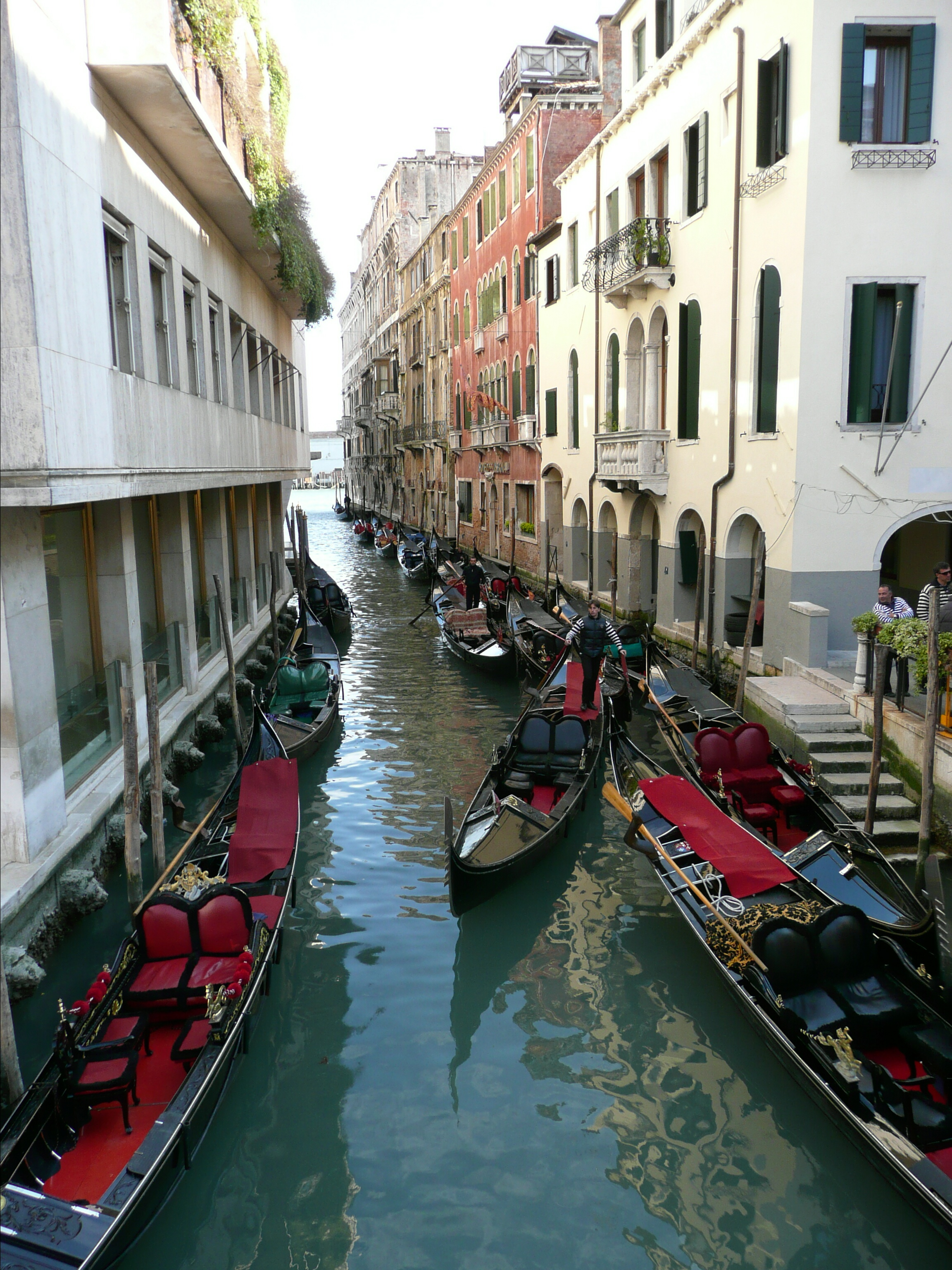 Canal in Venice with boats.